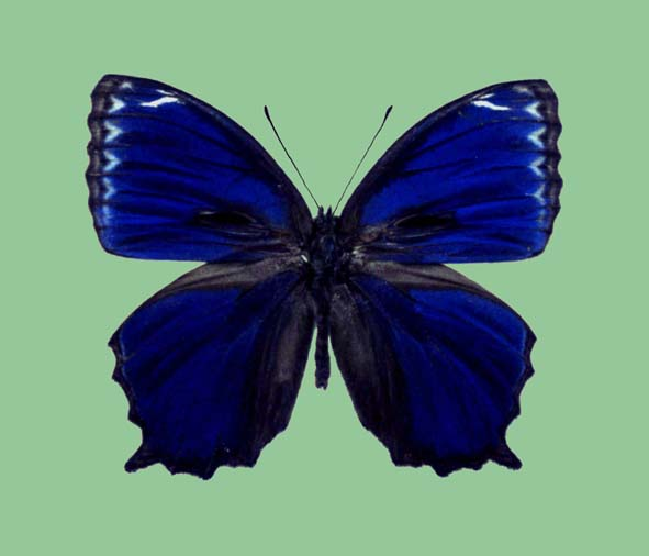 Ptychandra ohtanii, male, upperside